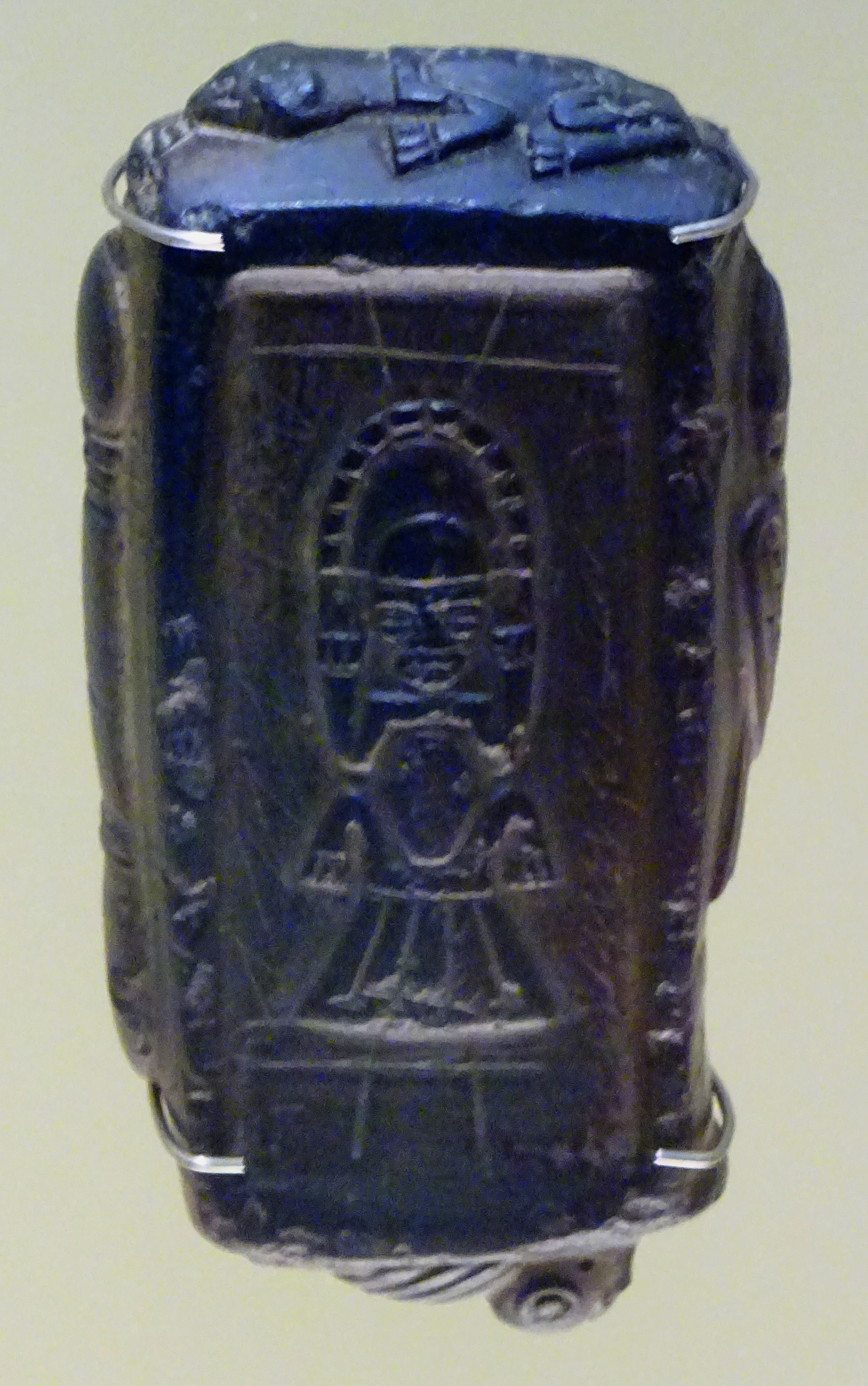 Mold for tunjos, Museo del Oro/Gold Museum, Bogotá, Colombia